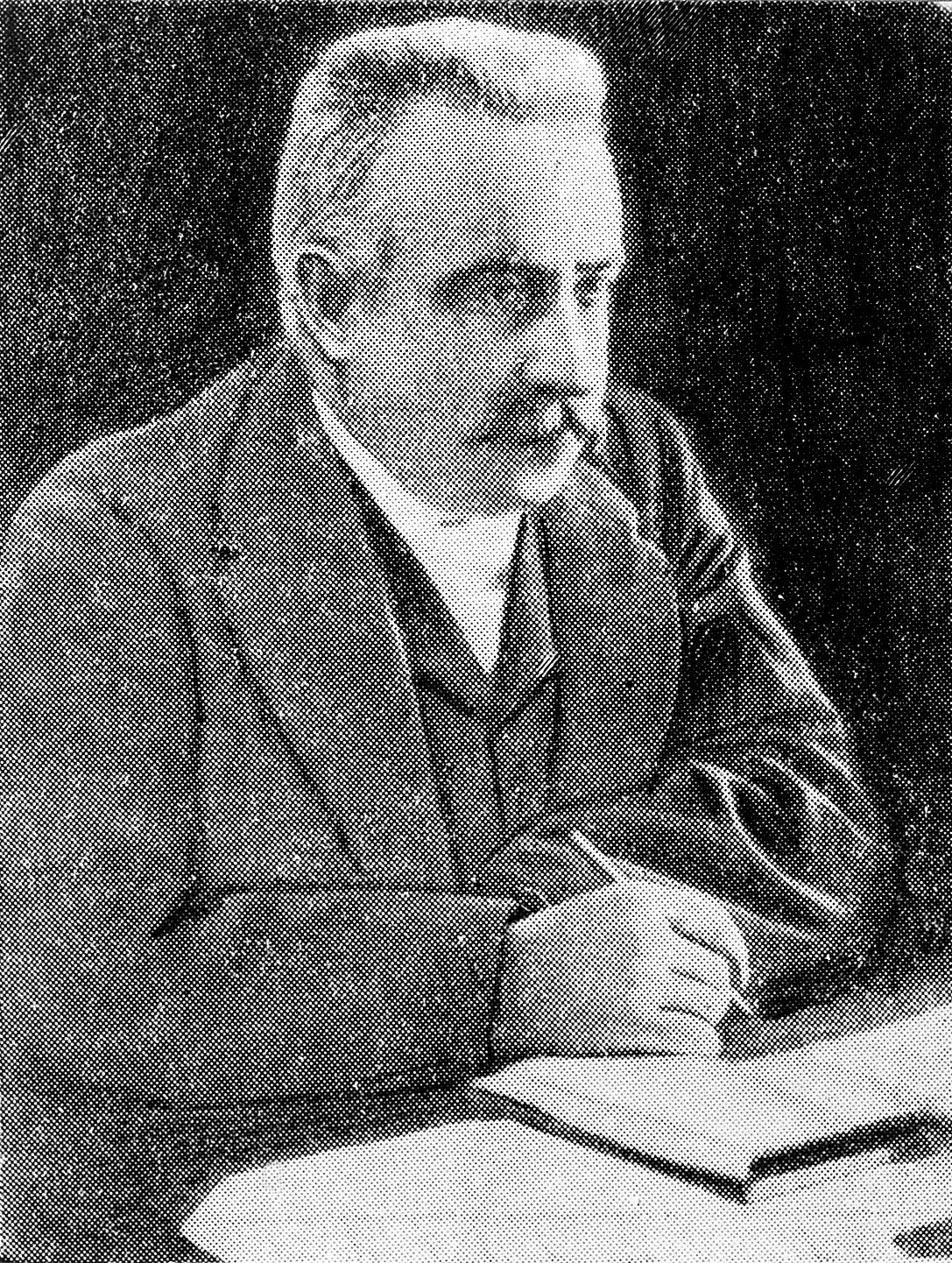 Portrait of Dimitriy Leonidovitch Romanovsky. Wellcome Images Keywords: Dimitriy Leonidovitch Romanovsky